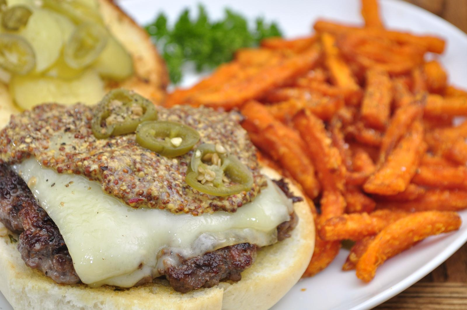 Cheeseburger with creole mustard and sweet potato fries